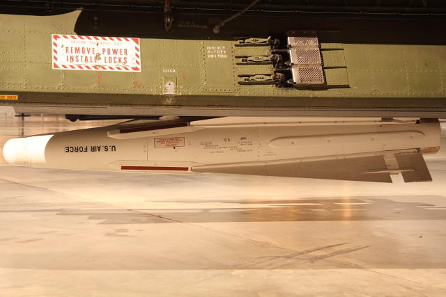 An AIM-26A Falcon nuclerar air-to-air missile. It is hunged under F-102 Delta Dagger. This picture was taken at National Museum of the United States Air Force - Dayton, Ohio.